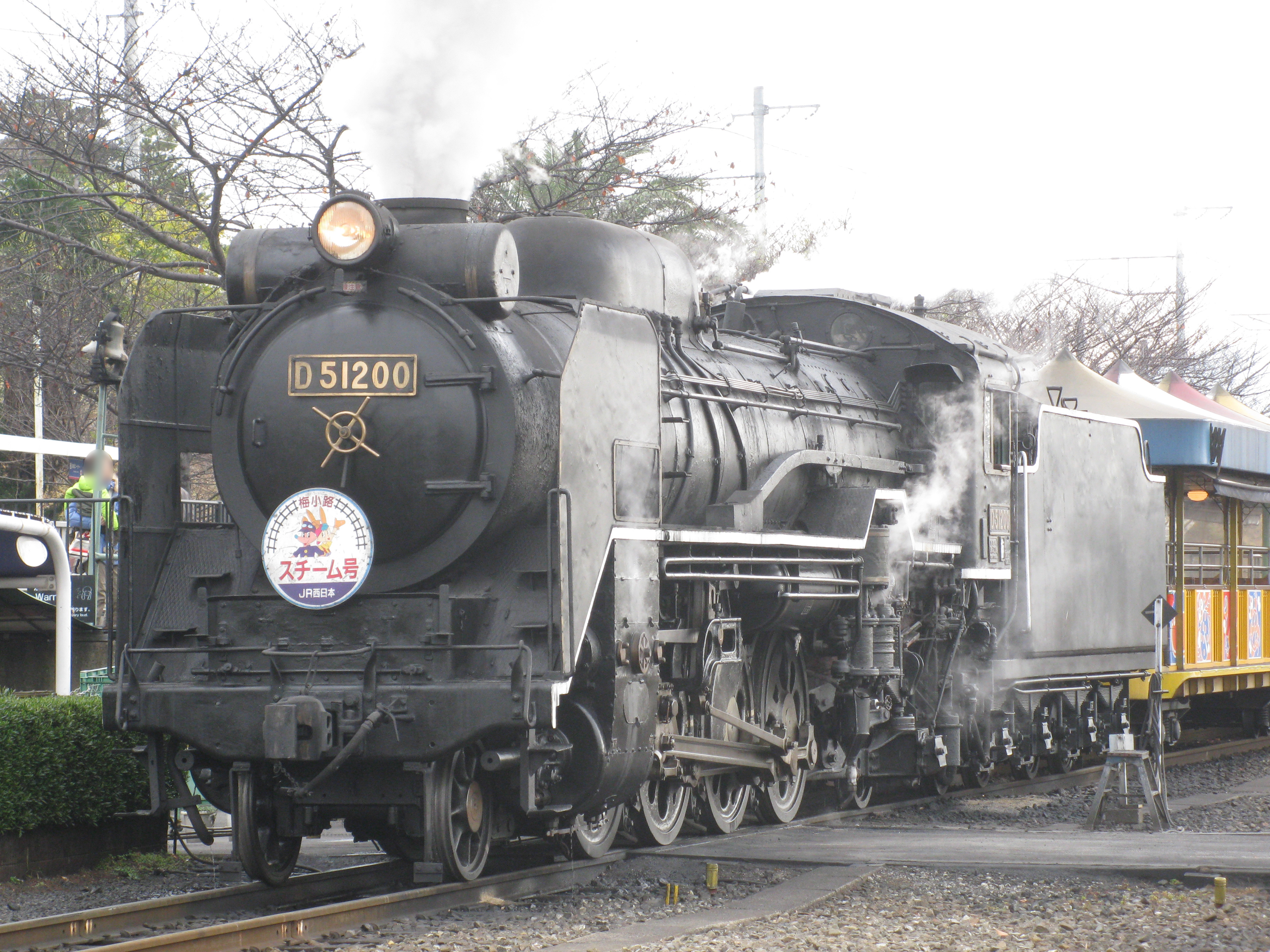 JNR Steam Locomotive Class D51 200 (Operated on Umekoji Steam Locomotive Museum, Kyoto city, Japan)